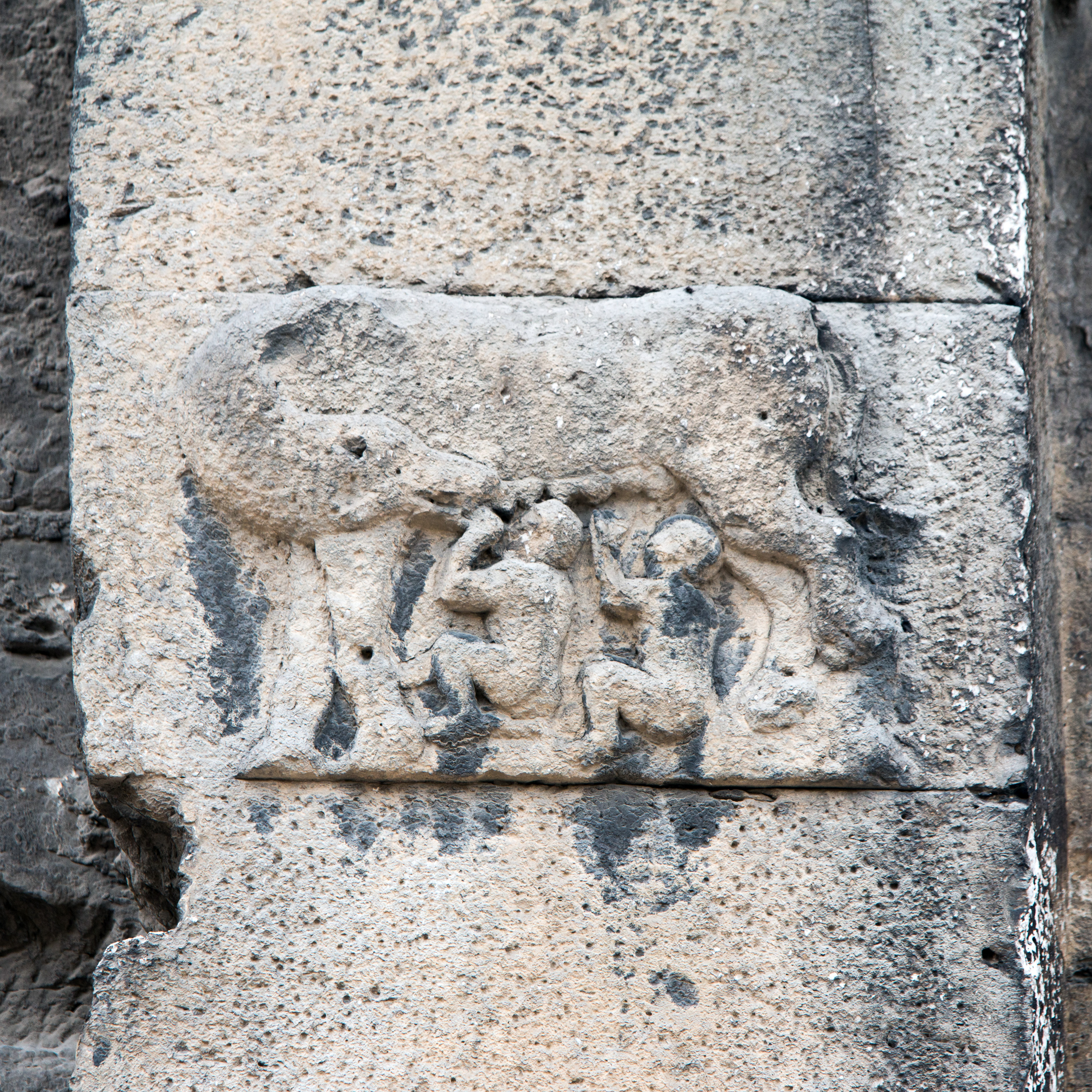 Like most representations of the founding myth of Rome, the She-Wolf looks at Romulus and Remus. .